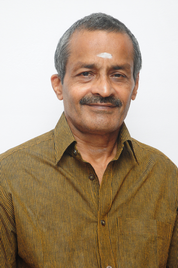 Thiyyadi (Narayanan) Nambiar